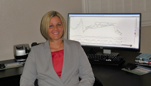 Carley Garner, considered an expert in commodity market technical analysis, sits in her office in front of a crude oil chart.